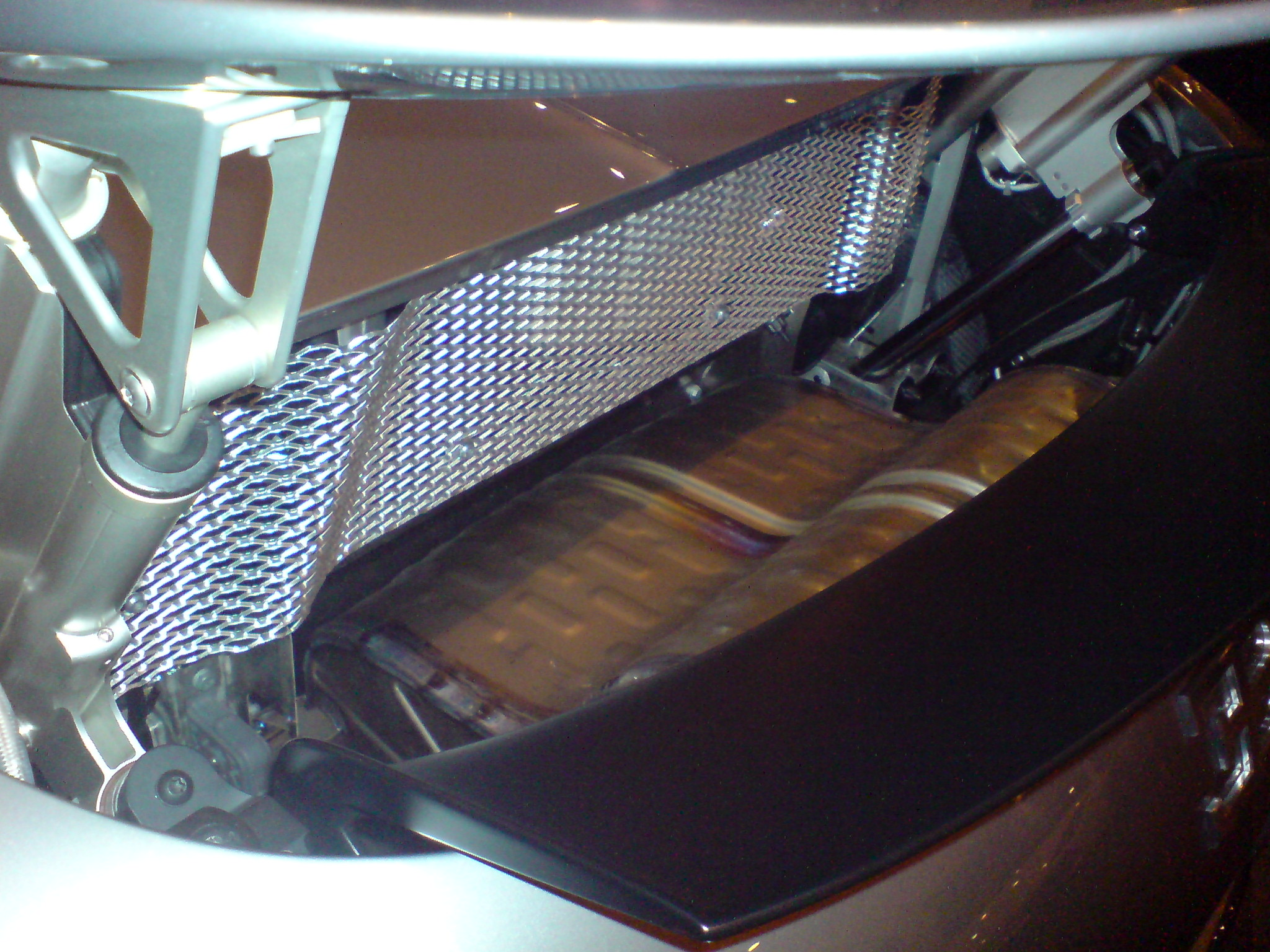 Bugatti Veyron 2008, Things inside the spoiler's hole